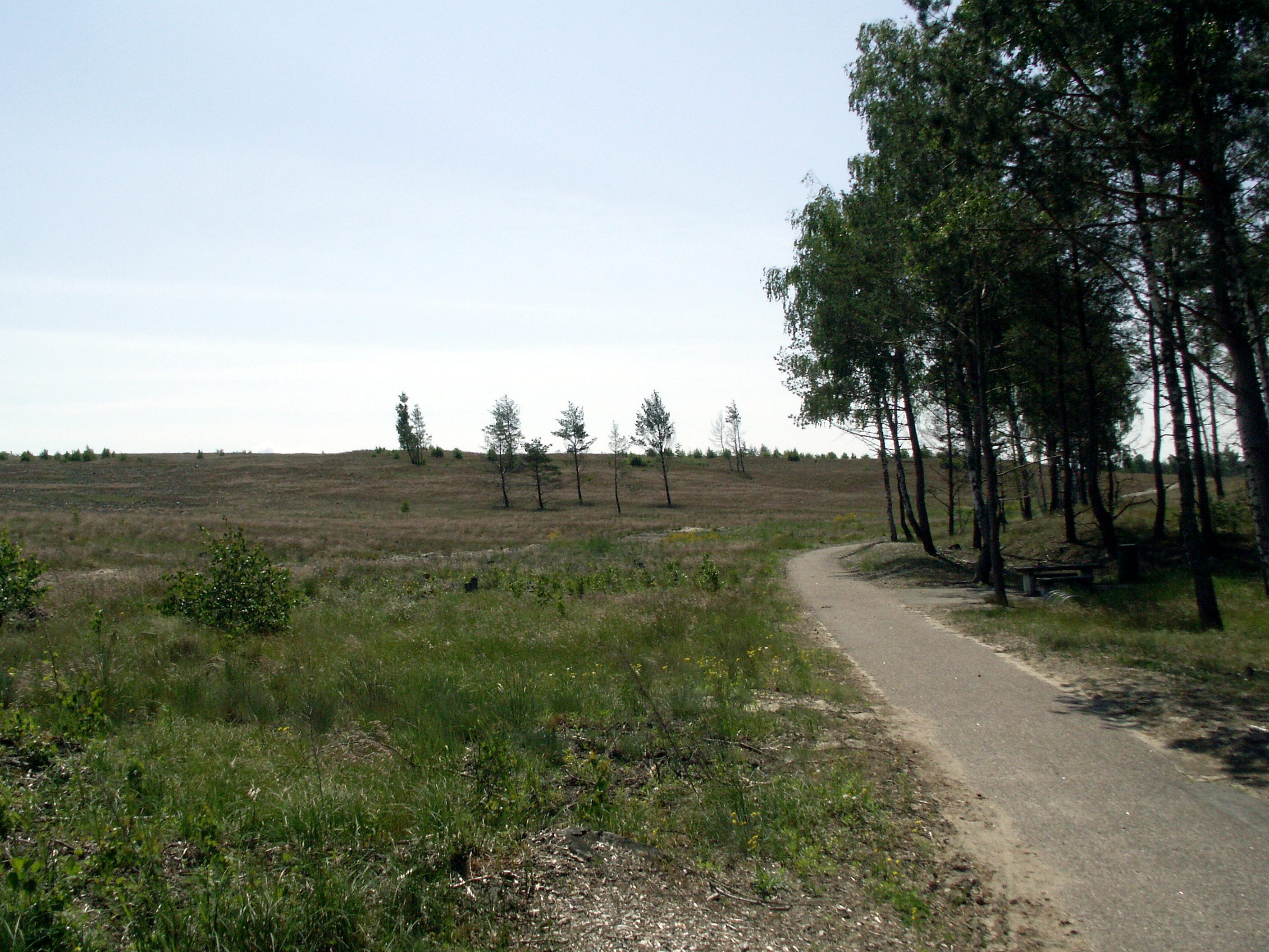 Way of bicycles in Neringa district, Lithuania